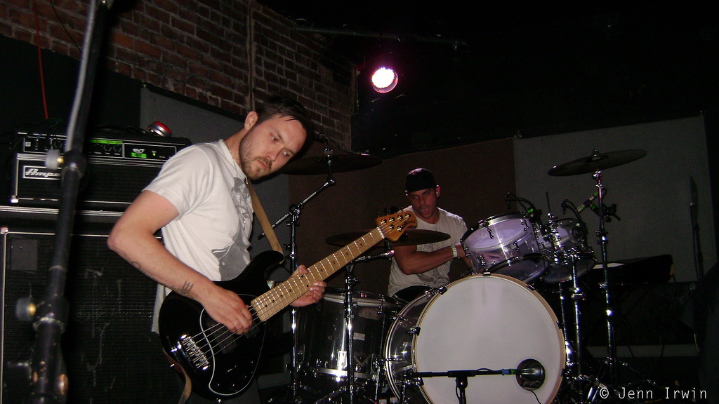 Dredg's bassist Drew Roulette and drummer Dino Campanella during a concert at The Exit in Fresno, CA on April 23, 2008.